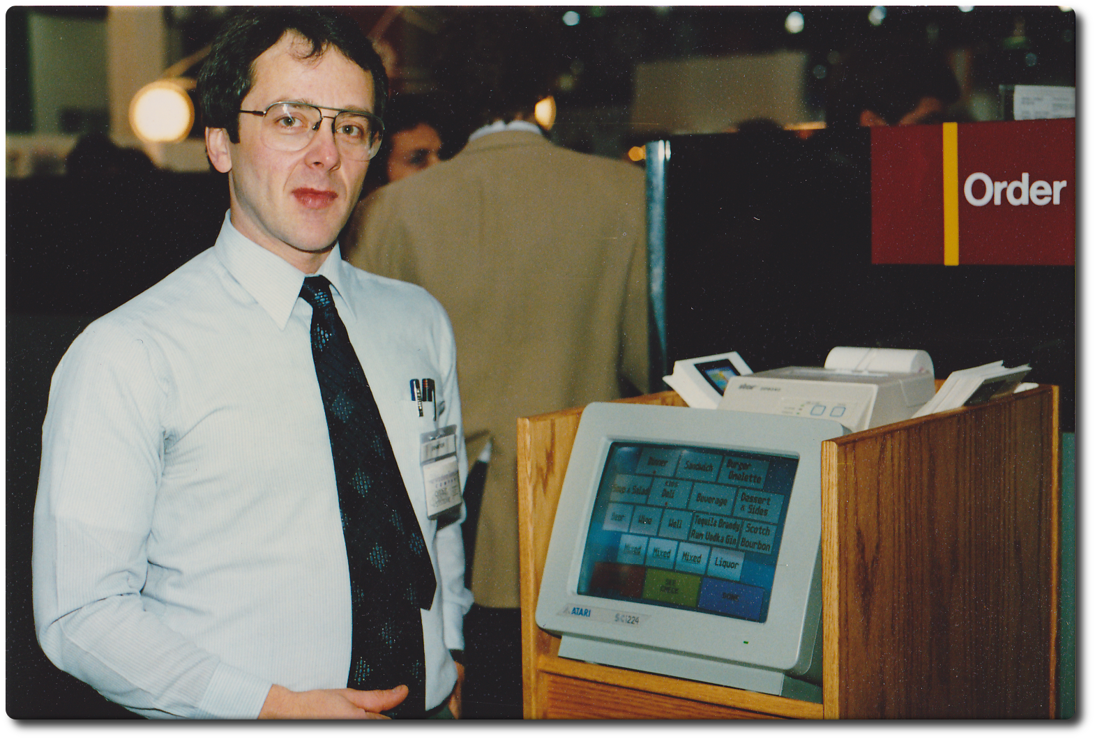 Eugene 'Gene' Mosher photographed by Barbara Mosher at the Atari Booth, ComDex, Las Vegas, Nevada on 17 November, 1986. Shown in the photograph is ViewTouch® a Graphical Touchscreen Point of Sale software running on an Atari ST computer attached to a 12" Atari SC1224 color display which he enhanced with a MicroTouch capacitance touch screen. A Star Micronics DP8340 printer is also shown at the top of the custom wooden enclosure. The ViewTouch® widget engine used to create the application is a very early direct manipulation interface. In the row of widgets at the bottom of the interface are the first appearances and uses of the now ubiquitous 'Back' (at left), 'Forward' (at right) and 'Drill Down' widgets. The widgets above the bottom row are 'Tab' Widgets. These graphical user interface elements were subsequently acknowledged as universally essential and useful; each was included in Internet browser interfaces and graphical applications which later appeared in the early 1990's. These interface elements also appear decades later in all contemporary SmartPhone and Tablet interfaces.